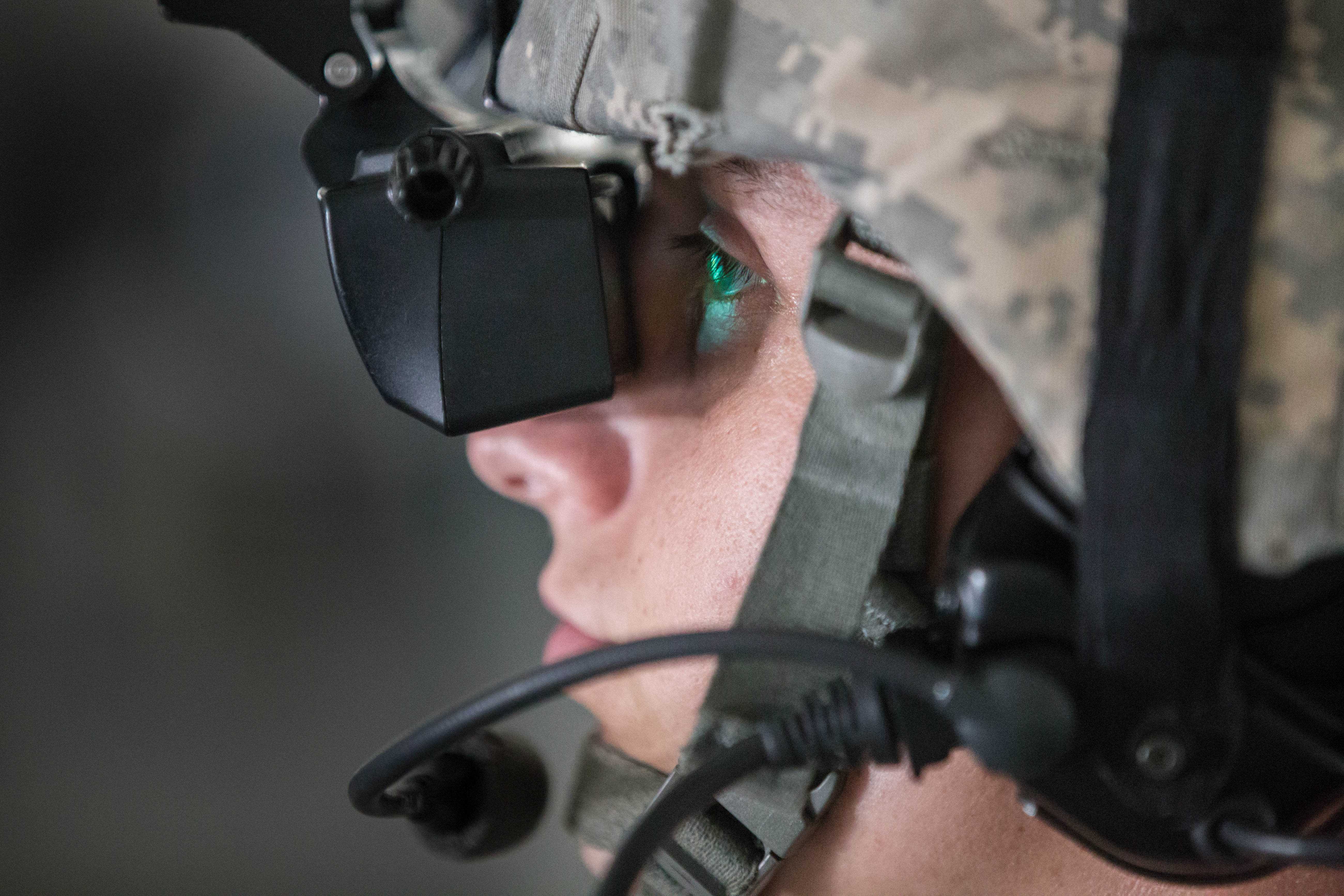 Spc. Cody Leasor, assigned to Headquarters and Headquarters Company, 35th Engineer Brigade, Missouri National Guard, looks into the headset of the Dismounted Soldier Training System, a virtual reality trainer, at Fort Leonard Wood. The DSTS translates soldiers’ movements into a simulated training environment where soldiers can conduct foot patrols and clear buildings. (U.S. Army photo by Pfc. Samantha J. Whitehead) Unit: 70th Mobile Public Affairs Detachment